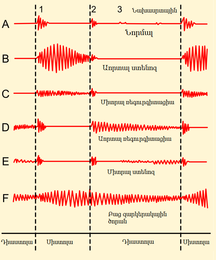 Phonocardiograms from normal and abnormal heart sounds